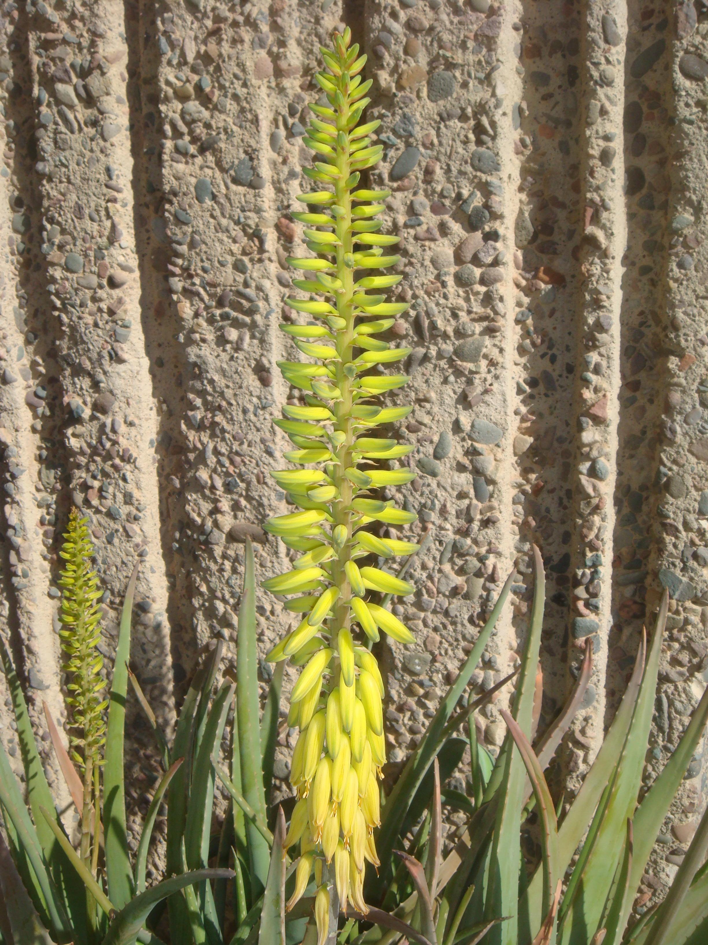 Aloe vera, cultivated, Arizona State University, Tempe, Arizona